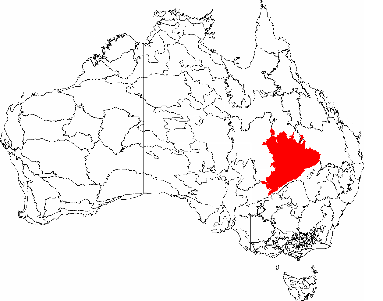 This is a map of the Interim Biogeographic Regionalisation of Australia (IBRA), with state boundaries overlaid. The Mulga Lands region is shown in red.